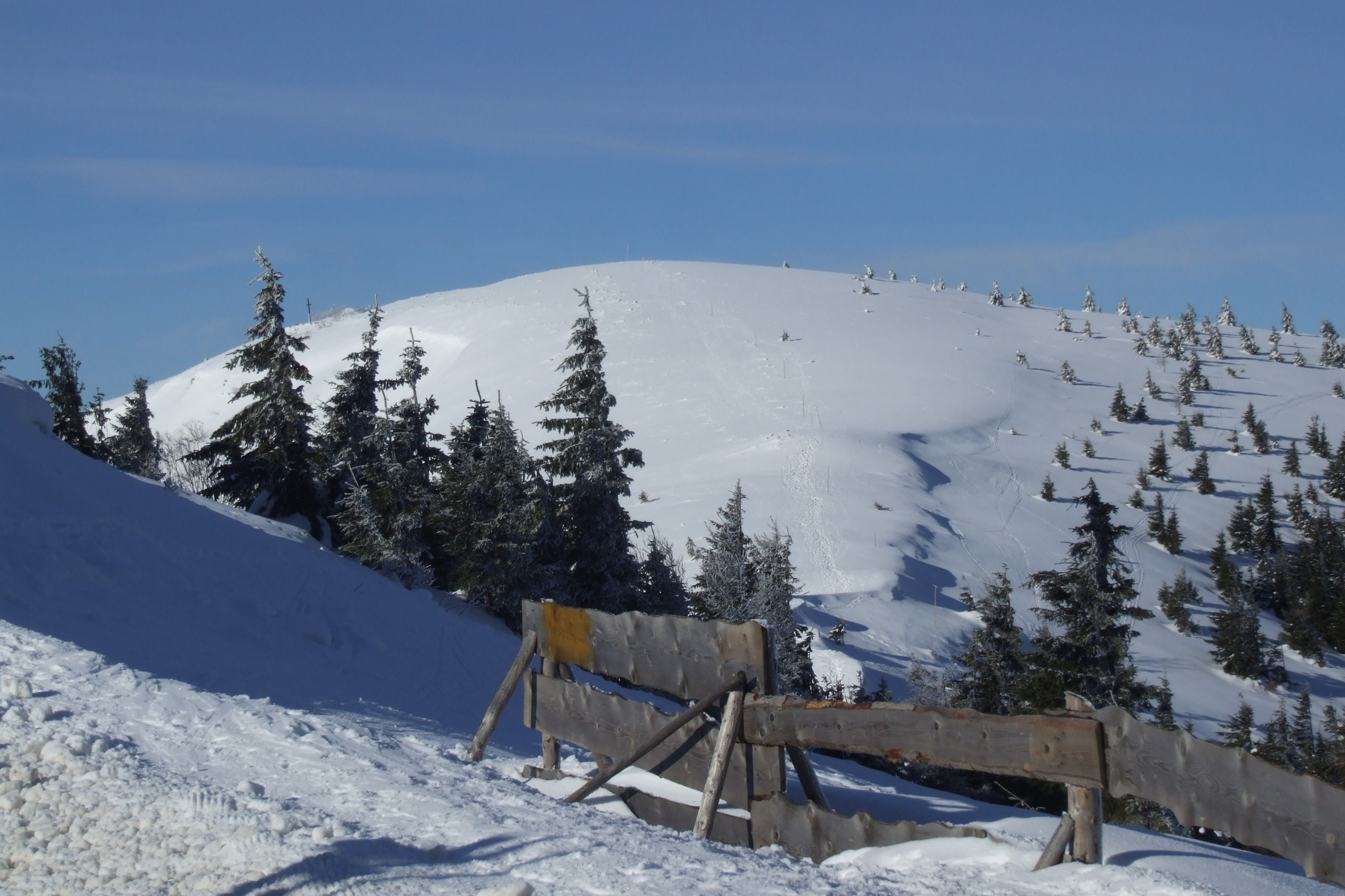 Zvolen mount (Veľká Fatra). View from Nová hoľa